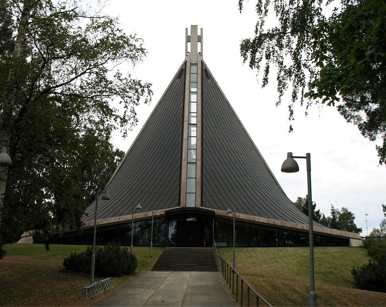 Kannelmäki Church, situated in the Kannelmäki district of Helsinki, Finland. The church was designed by architects Marjatta and Martti Jaatinen, and built in 1967–1968.